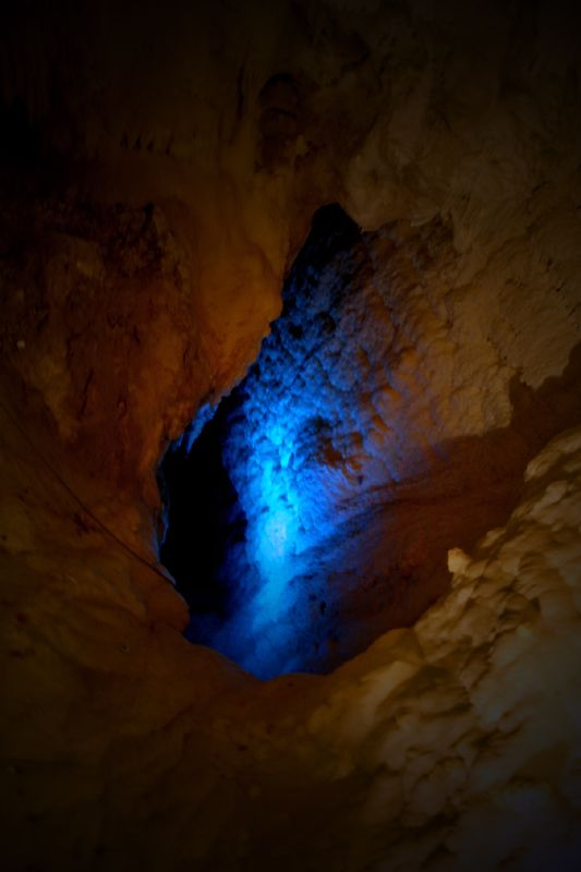 Genga, Marche, Italia